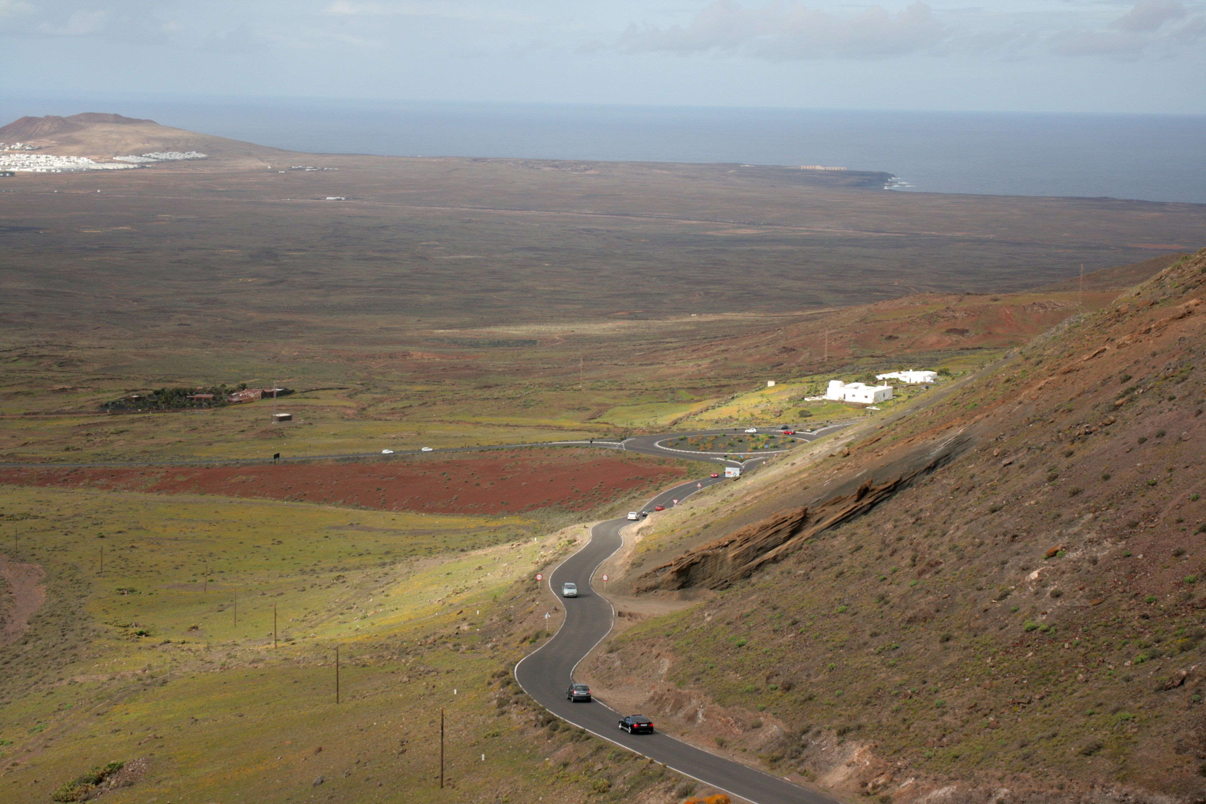 View from the Balcón de Femés down to the roundabout of Avenida a Femés (left) and LZ-703 with Montaña Roja left in background in Yaiza, Lanzarote, Canary Islands